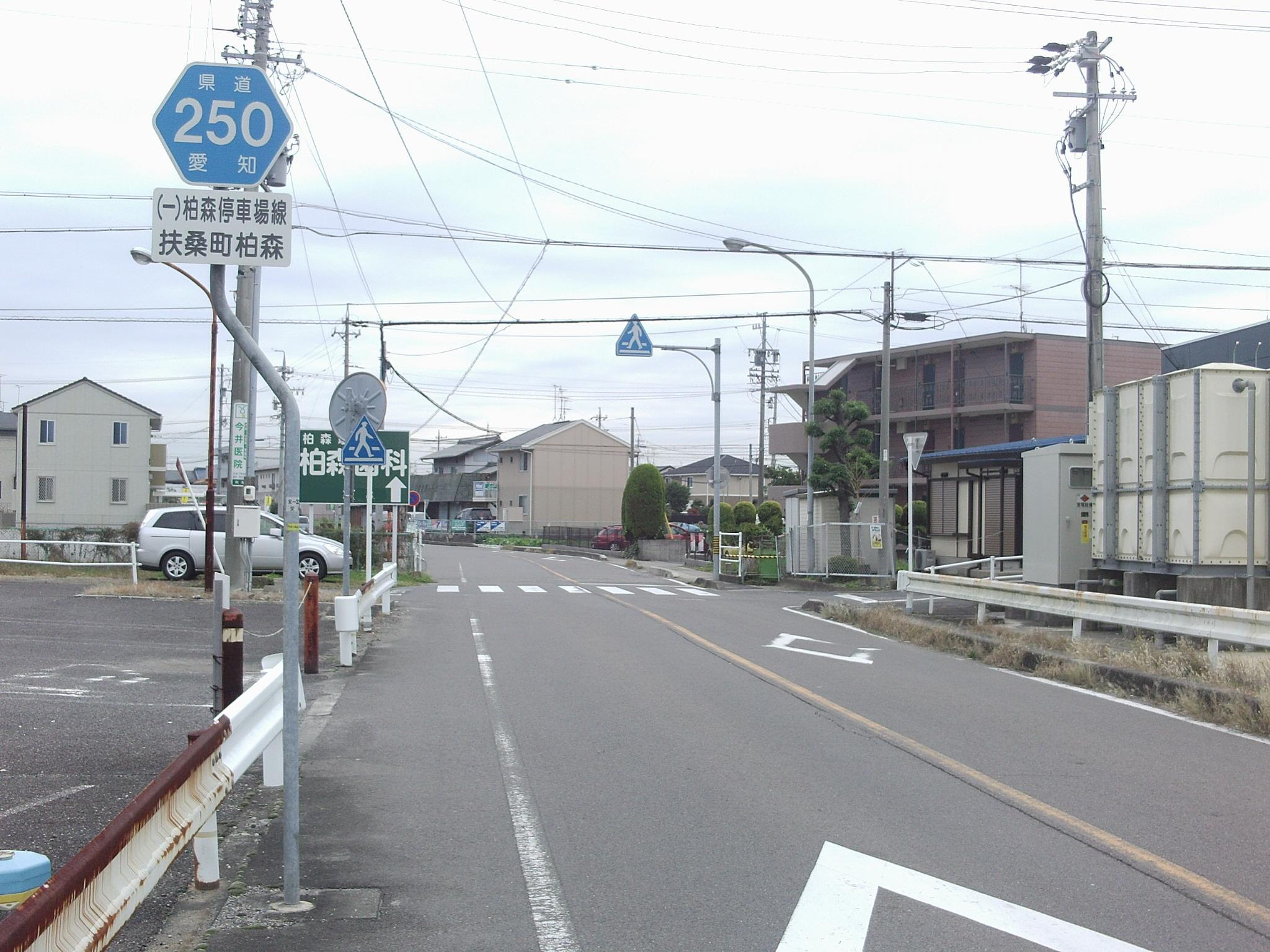 Aichi prefectural road No.250 in Saito, Fuso-cho, Niwa-gun, Aichi.